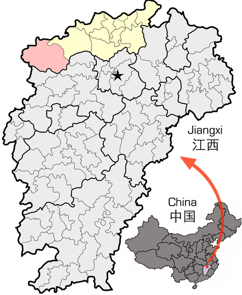 Map showing location of Xiushui, Jiujiang in Jiangxi Province China